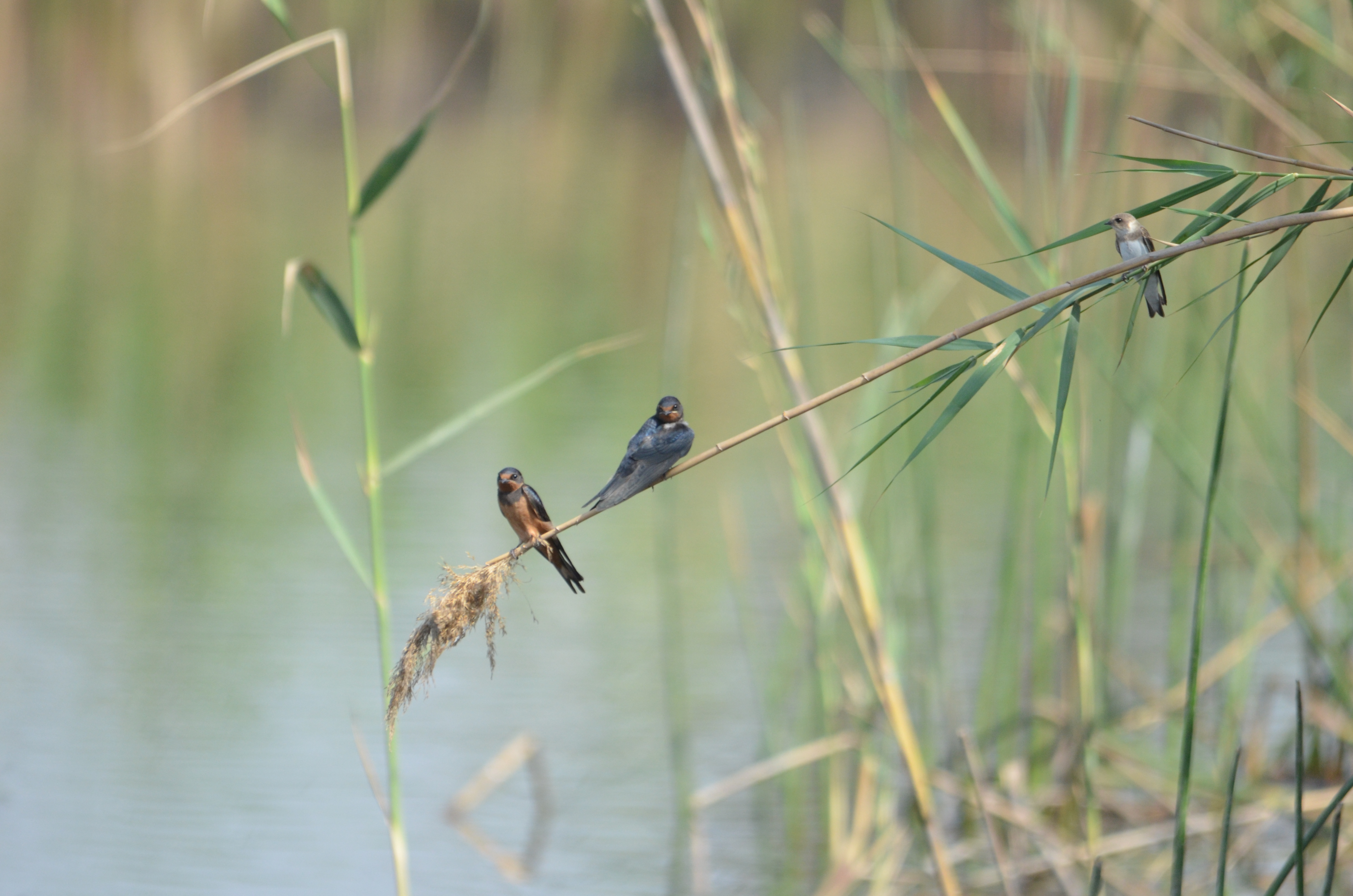 Barn swallow & Sand martin